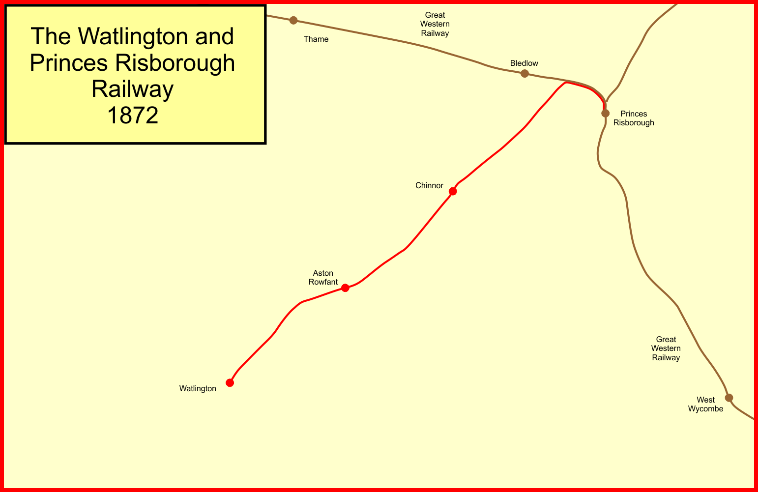 System map of the Watlington and Princes Risborough Railway, England, 1872